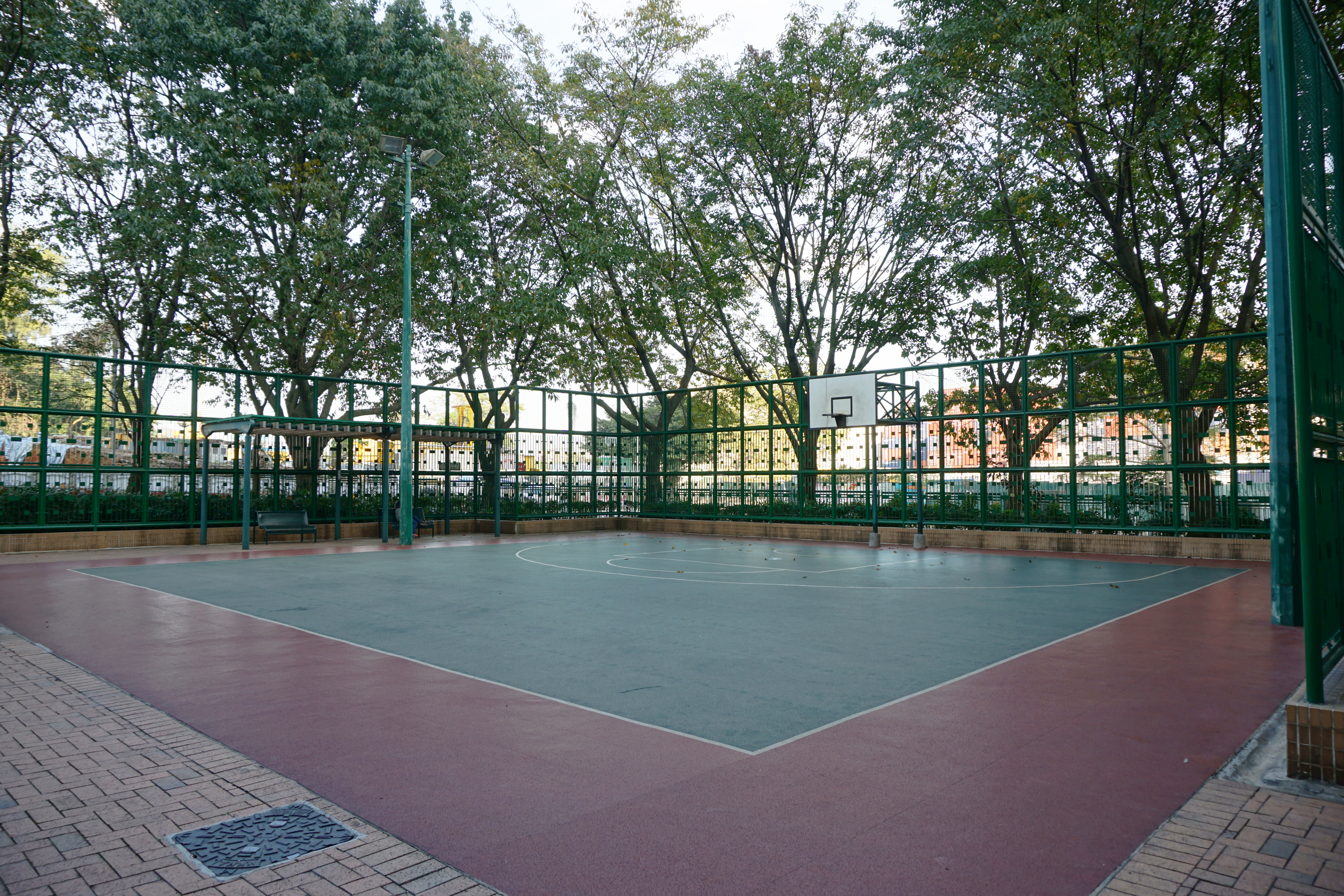 Po Tin Estate in Tuen Mun, Hong Kong.